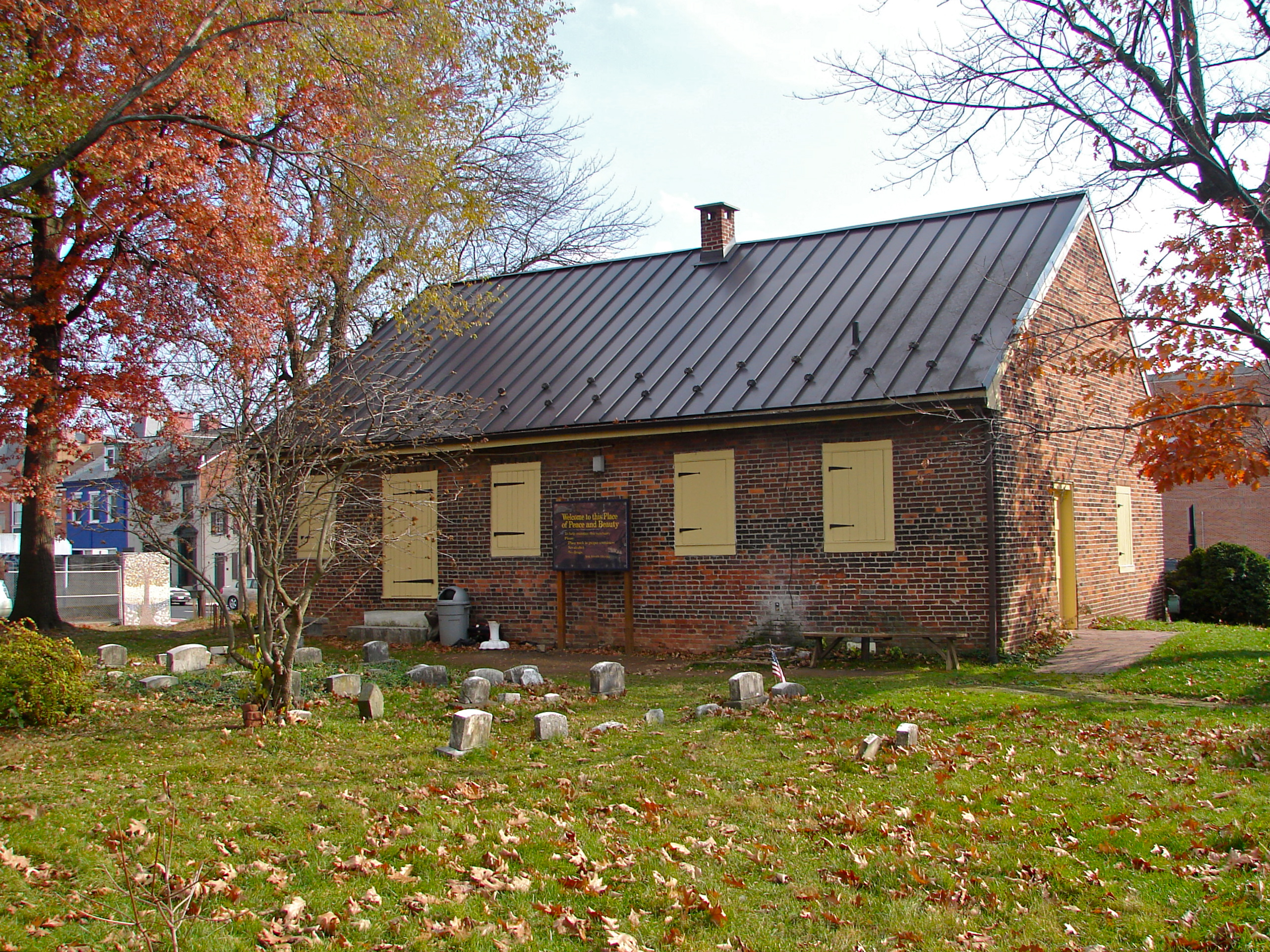 York Meetinghouse (Quaker) on the NRHP since May 6, 1975. At 134 West Philadelphia Street, York, in York County, Pennsylvania. Left side built in 1760s, right side in 1780s.